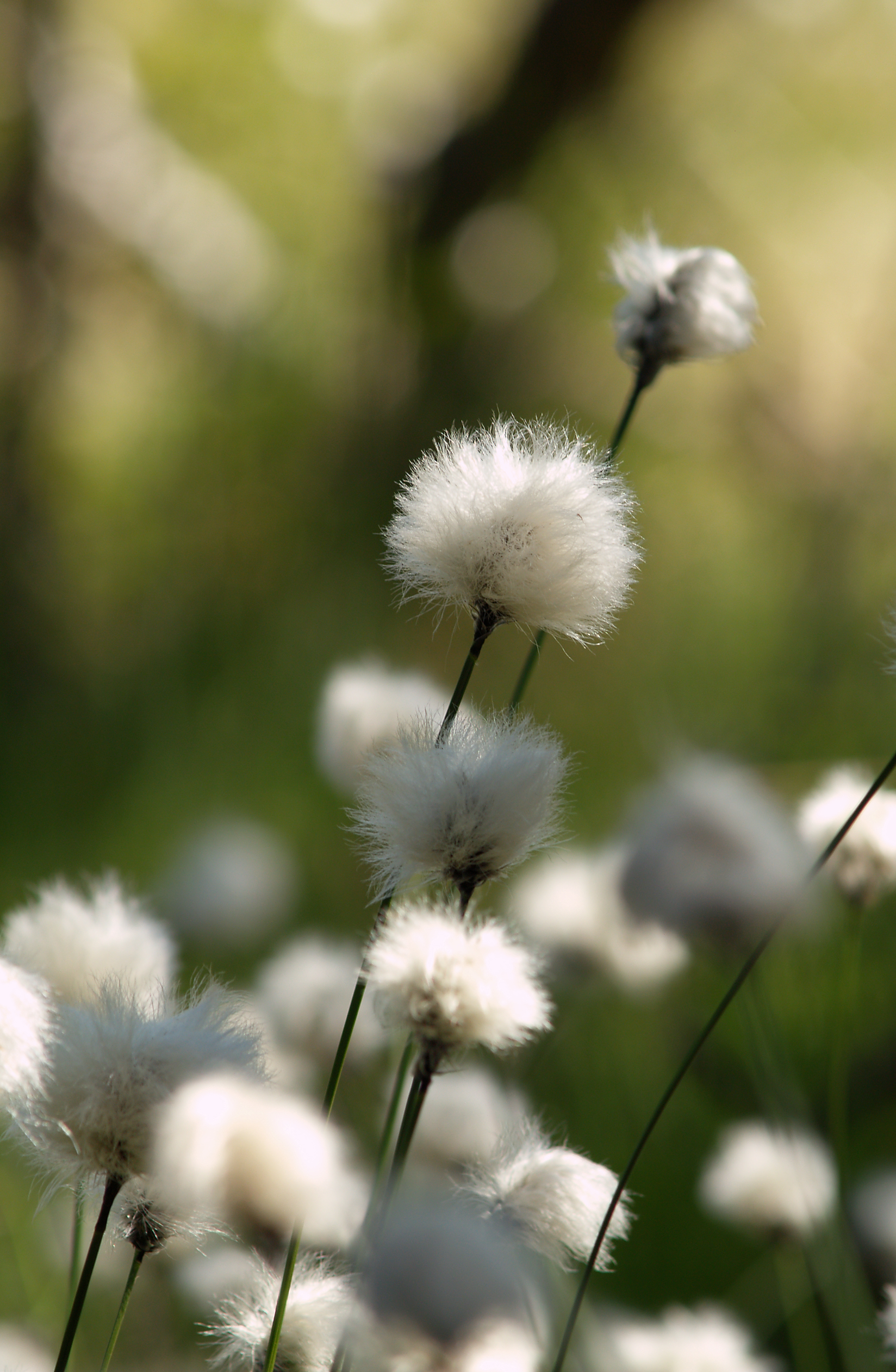 fruiting Cotton-grass (Eriophorum vaginatum); Geyer, Germany